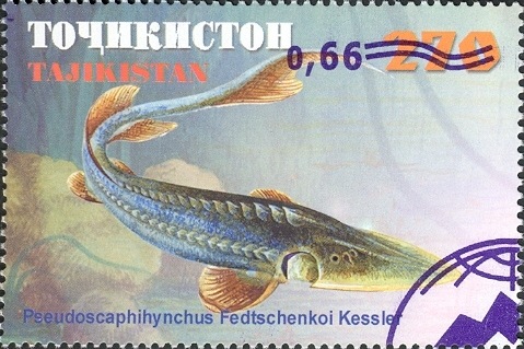 Stamps of Tajikistan